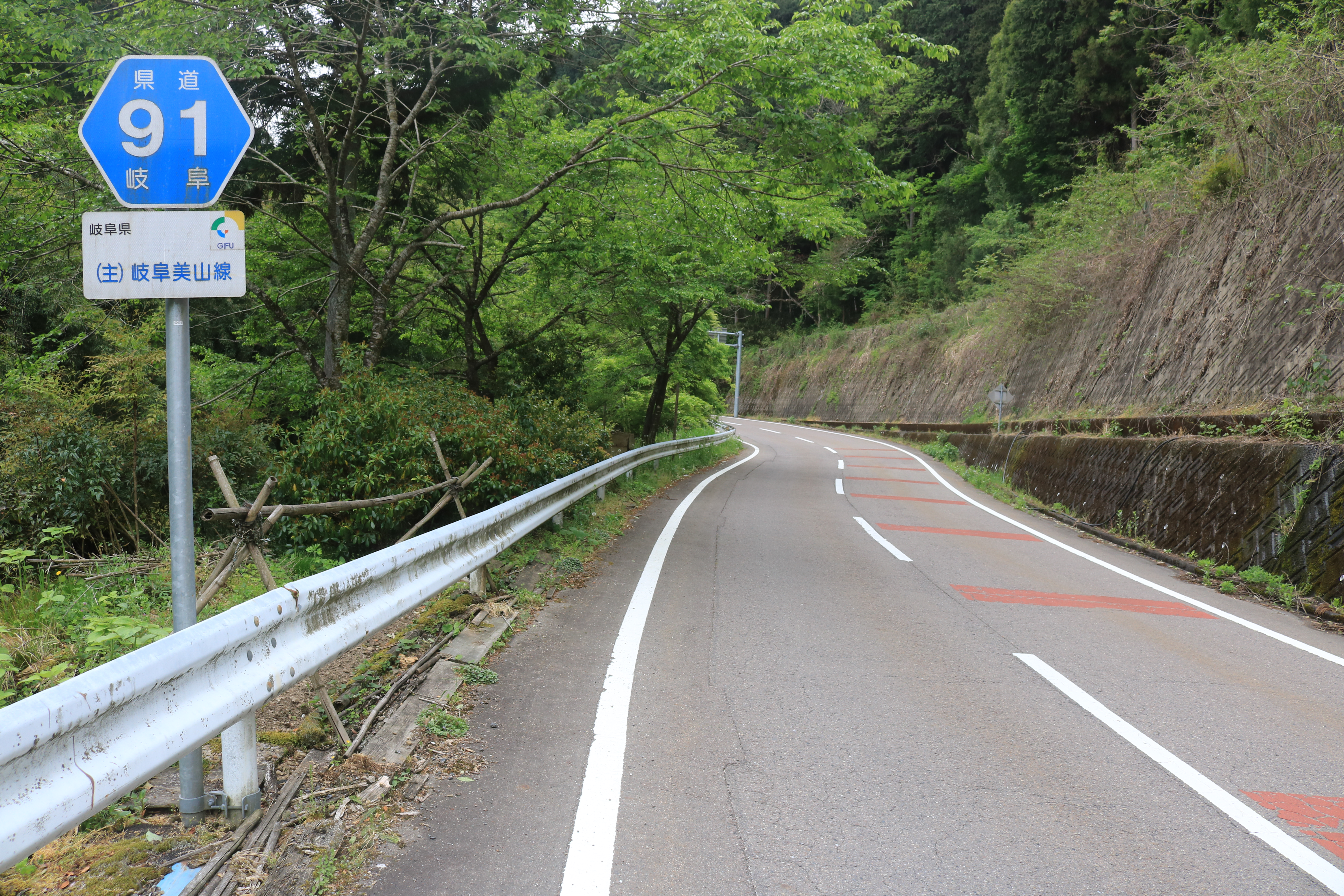 Gifu Prefectural Road Route 91 in Taniai, Yamagata, Gifu prefecture, Japan.